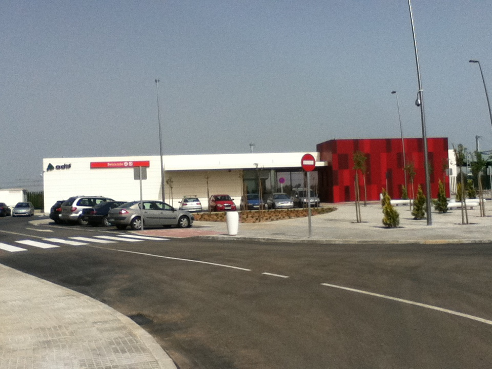 Exterior estacion benacazon